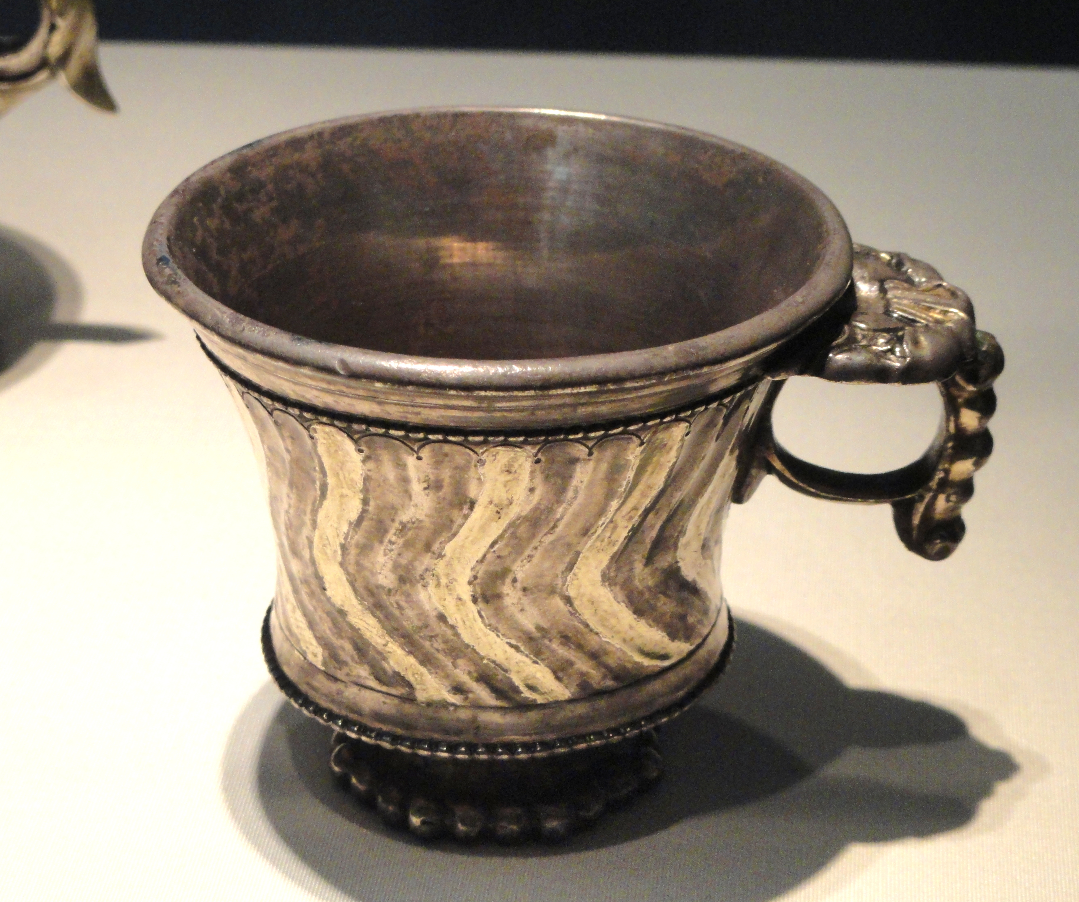 Exhibit in the Freer Gallery of Art, Washington, DC, USA. This artwork is old enough so that it is in the public domain.